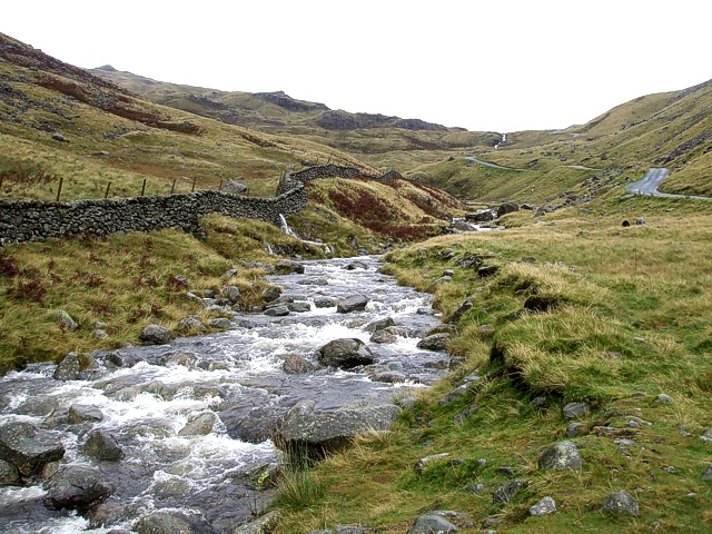 River Duddon, Wrynose Pass The River Duddon is seen here flowing alongside the road through Wrynose Pass. This pass is situated between Little Langdale to the east and the Hardknott Pass to the west.